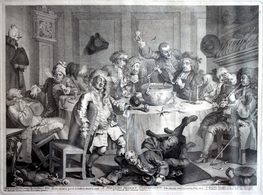 Hogarth, William (1697-1764): A Midnight Modern Conversation, c. 1730. In fine condition, possibly a posthumous impression. Artist William Hogarth (1697–1764) DescriptionBritish painter and engraverDate of birth/death 10 November 1697 25 October 1764Location of birth/death London LondonWork location London, ChiswickAuthority control : Q171344 VIAF: 17268409 ISNI: 0000 0001 2099 3749 ULAN: 500004242 LCCN: n80126106 NLA: 35201047 WorldCat creator QS:P170,Q171344